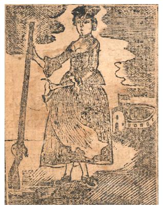 Illus. from: Mary Rowlandson. A Narrative of the Captivity, Sufferings and Removes of Mrs. Mary Rowlandson. Boston: Nathaniel Coverly, 1770. Mary Rowlandson was captured in an attack on Lancaster, Massachusetts in 1676, during King Philip’s War.